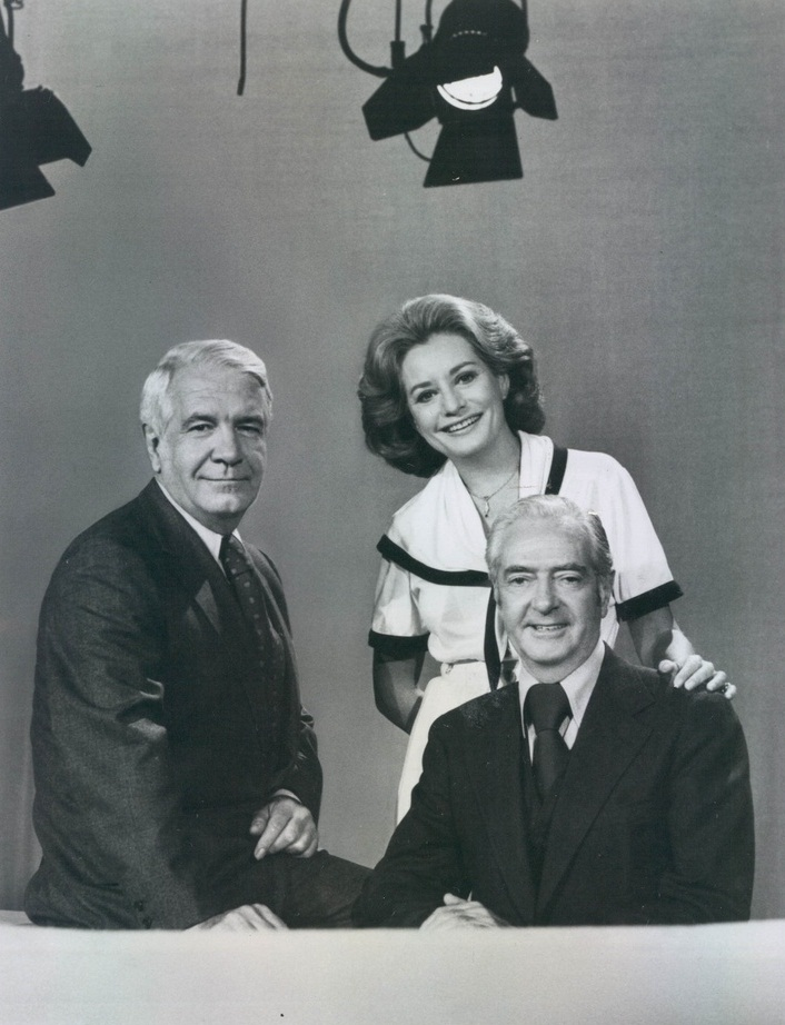 ABC News Anchors Harry Reasoner, Barbara Walters and Howard Smith in a Press Photograph for the ABC Television news coverage of the 1976 Presidental, Congressional and Gubernational elections in the United States